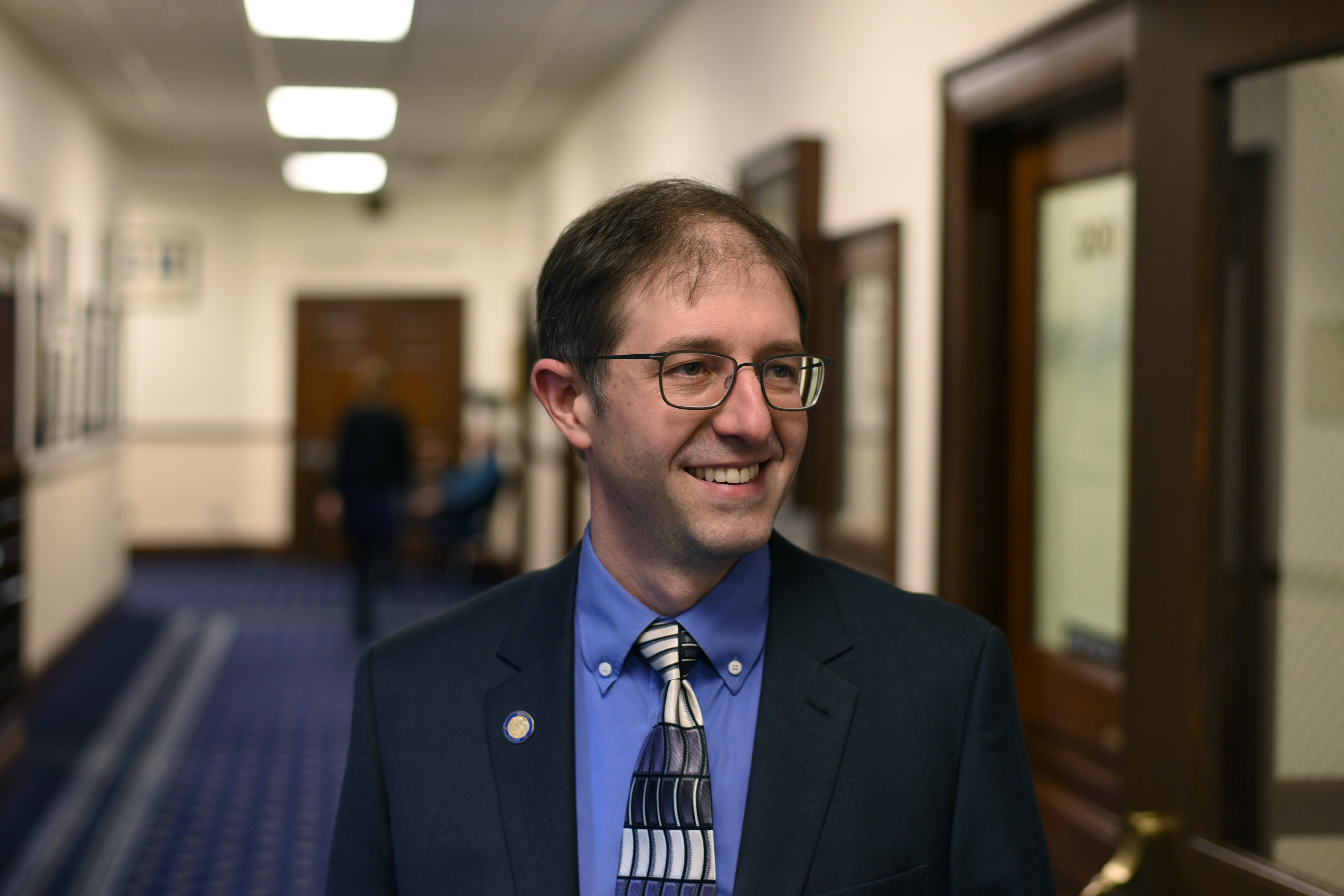 This photo is provided under a Creative Commons Attribution license. Please provide the following credit: "Photo used under Creative Commons license courtesy Paxson Woelber, The Alaska Landmine"